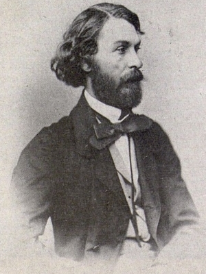 Russian writer Dmitry Grigorovich